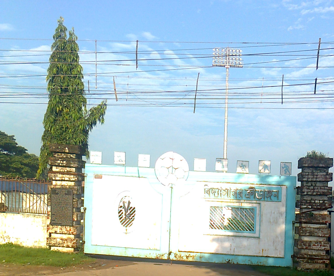 Barasat Bidhya Sagar Stadium, Barasat, West Bengal, India